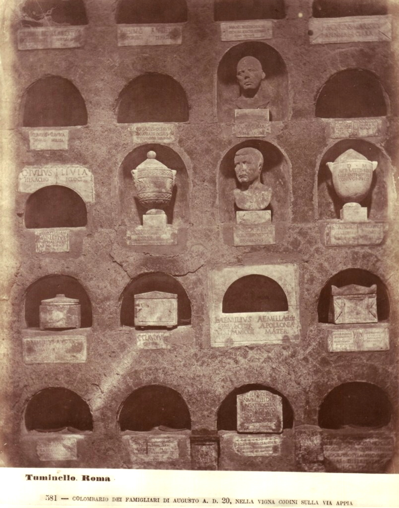 Ludovico Tuminello (1824-1907), "Columbarium of the familia of Augustus, a.D. 20, at vigna Codini along the Via Appia" (Rome). Numero di catalogo: 581.